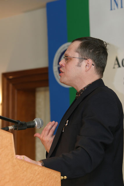 Picture of Clinton Bennett